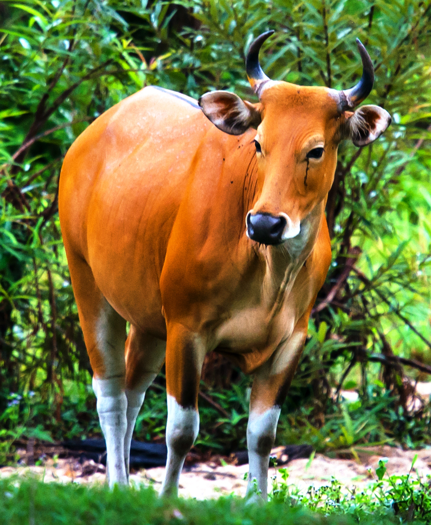 Huai Kha Khaeng Wildlife Sanctuary This photo is published under Creative Commons Attribution-Share-Alike Licence, means you are free to use this photo with attribution under same licence. When giving attribution, please use following; Owner: Thai National Parks Link